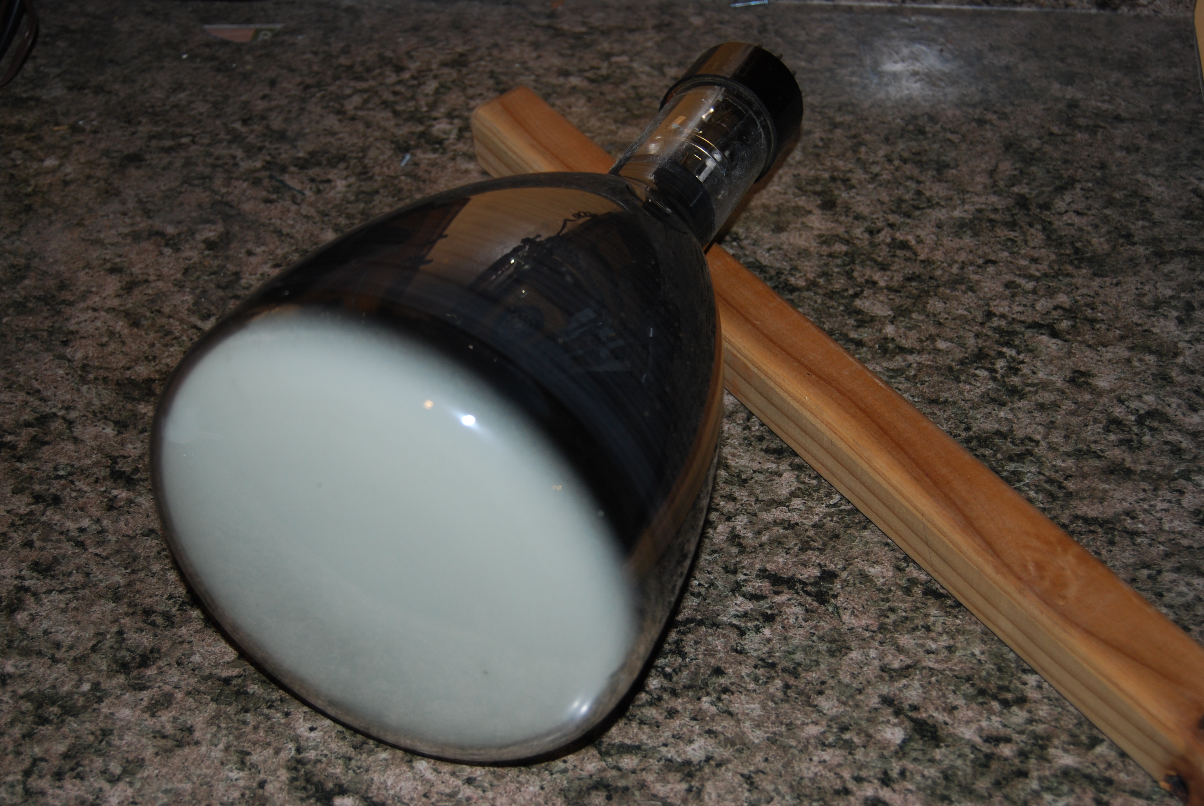 The 7JP4 was a popular picture tube in small low cost televisions made in the United States in the late 1940's. This picture tube was used in electrostatic deflection TV sets. The United States was one of the few countries that made and sold electrostatic TV's